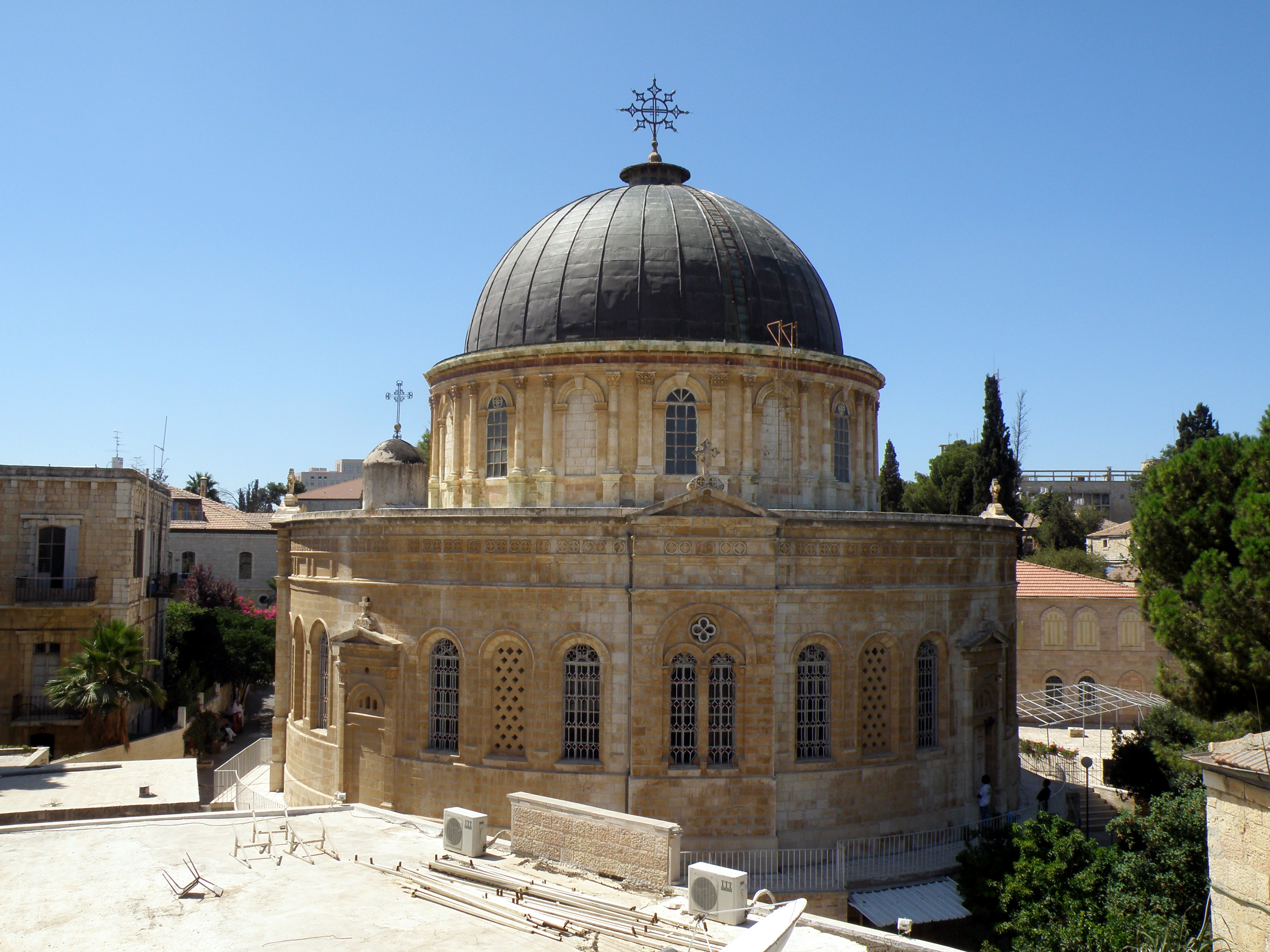 Houses from Within | Bridges for Peace Jerusalem